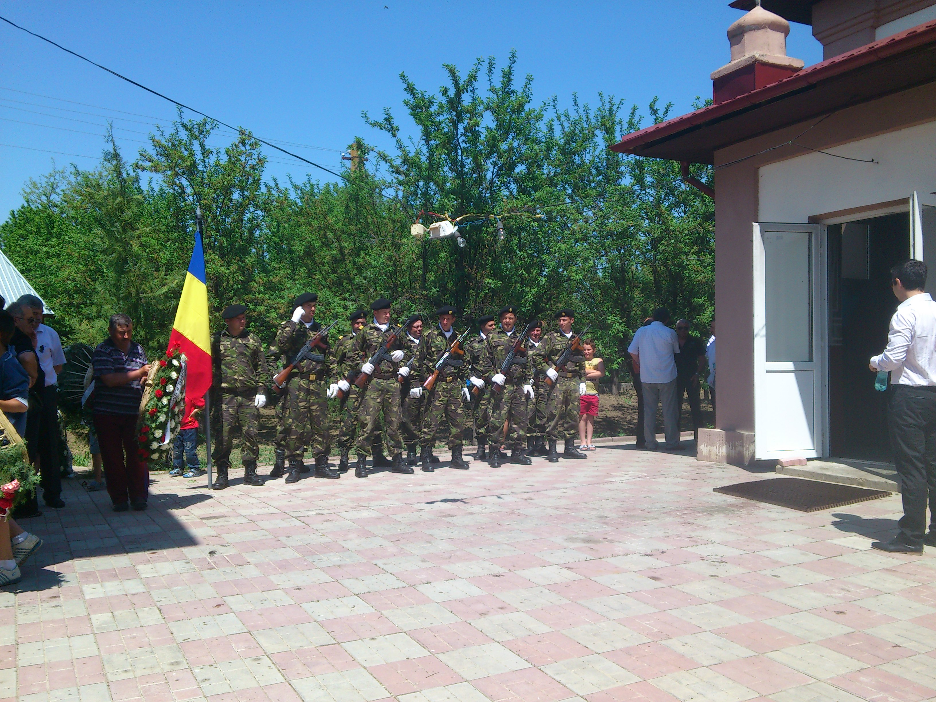 Înmormântarea Amiralului Manole Vasile